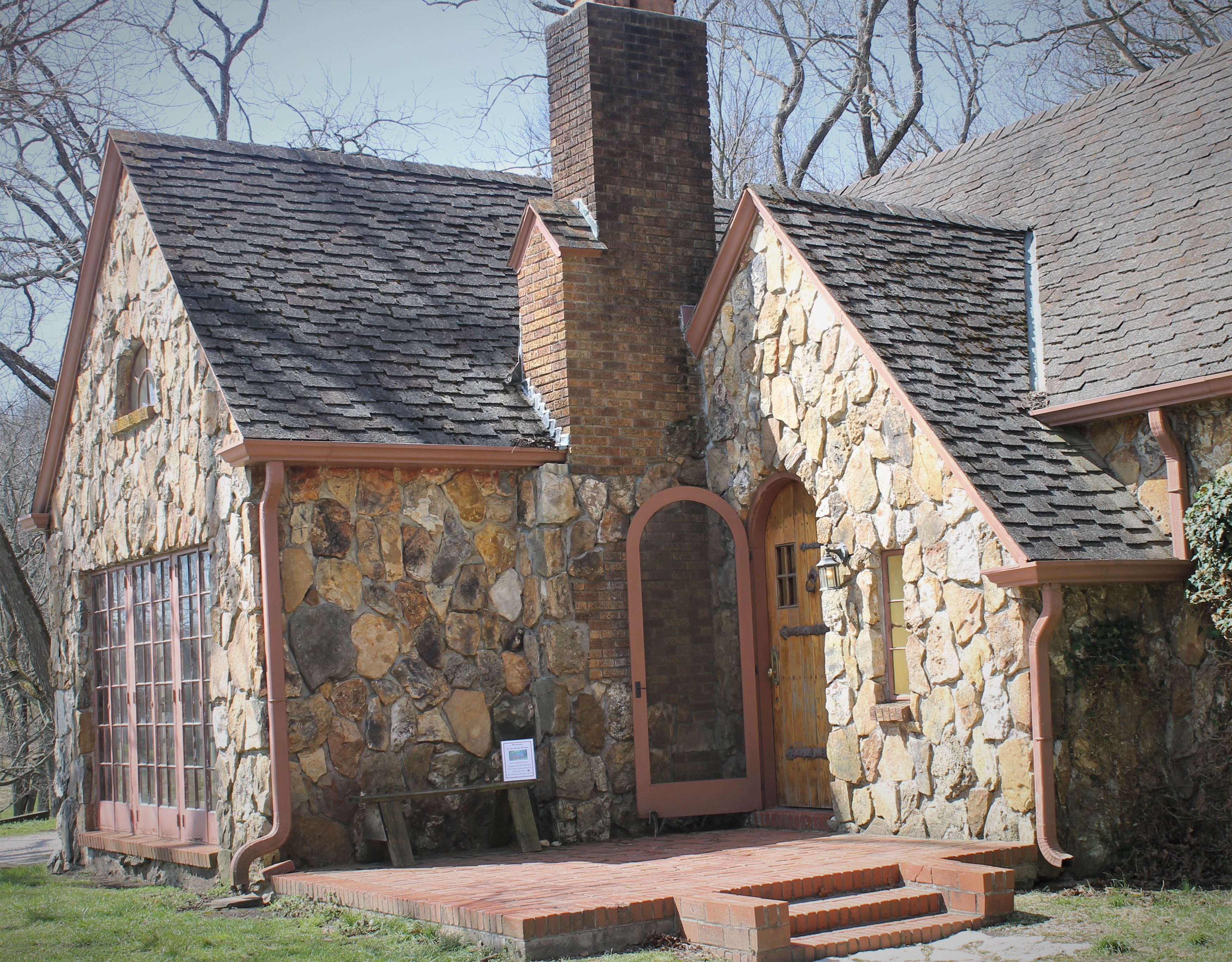 Rock House residence of Almanzo and Laura Wilder in 1930s near Mansfield, MO